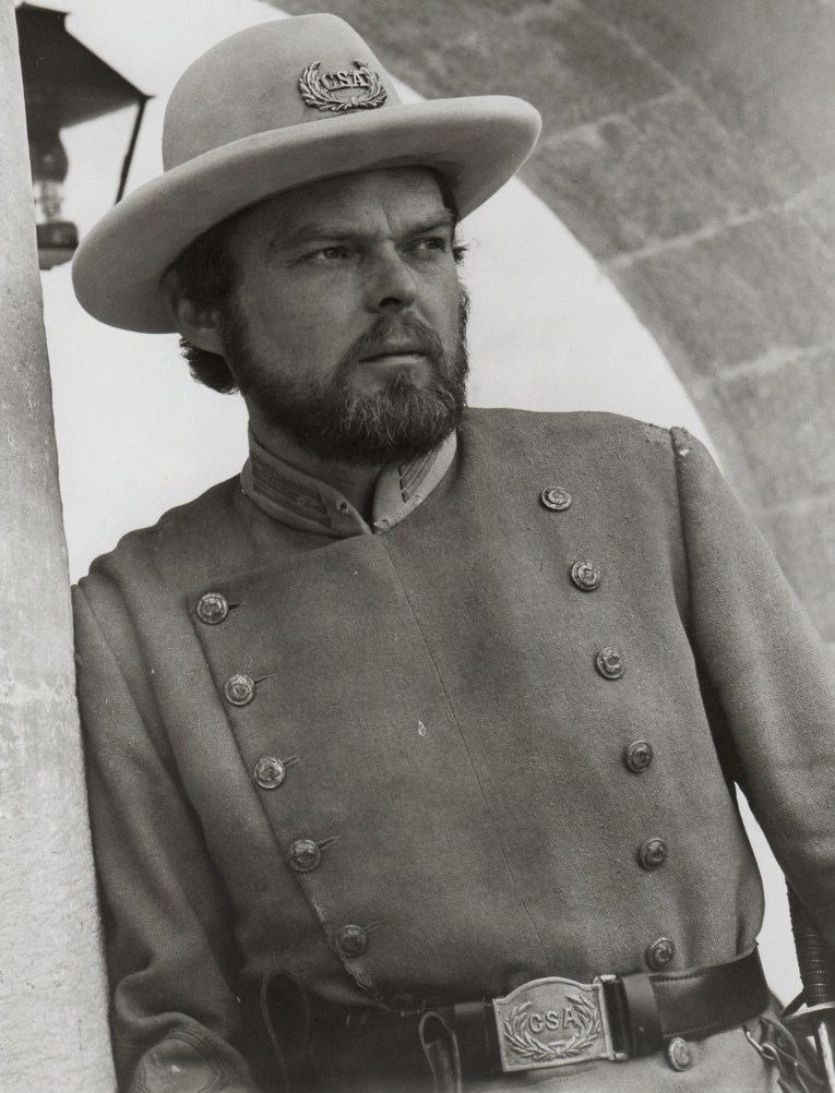 Edward Faulkner in The Undefeated - publicity still (cropped : see source)